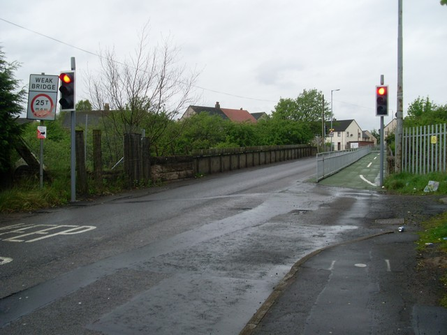 Weak bridge over railway In Baillieston.